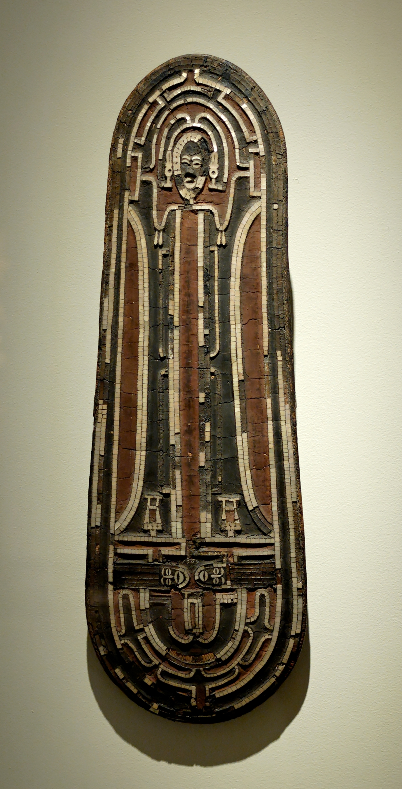 Ceremonial shield made from strips of wood, parinarium nut paste and nautilus mother-of-pearl. Solomon Islands, first half of the 19th century.